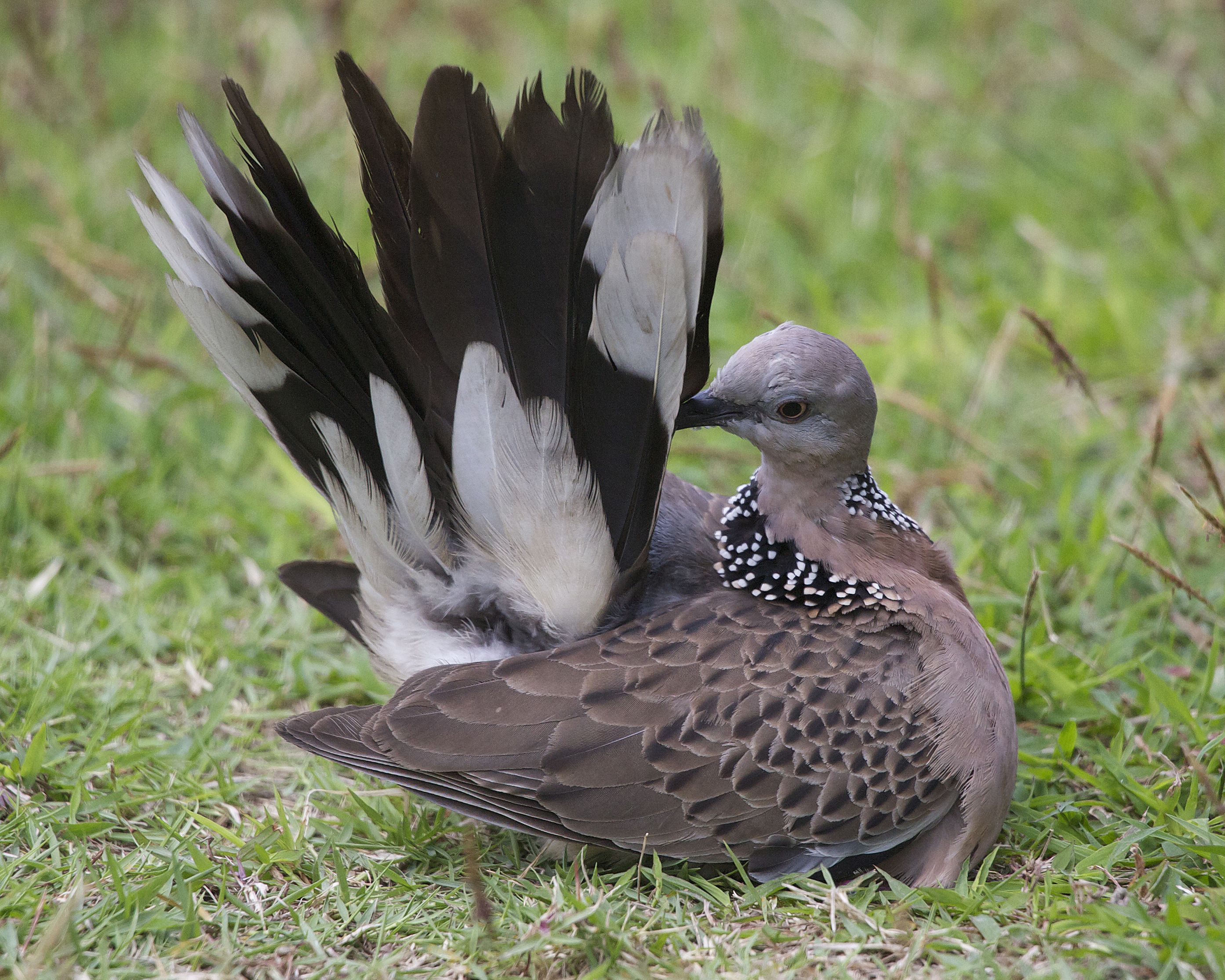 Spotted Dove Streptopelia chinensis ssp Streptopelia chinensis tigrina Nusa Dua, Bali, Indonesia 1st. August 2010 690V7363